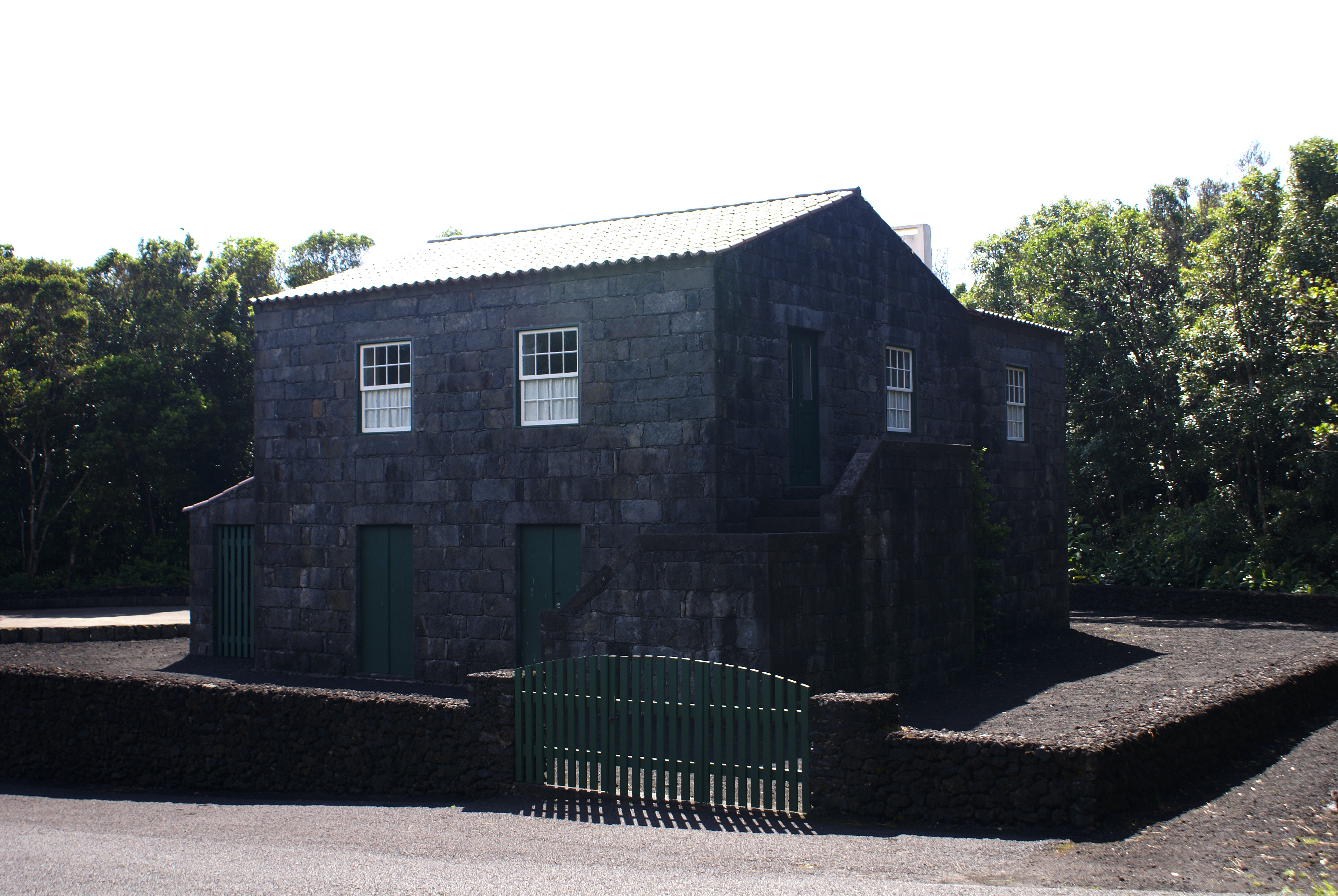 Reserva Florestal de Recreio do Capelo, Casa tradicional dos Açores, 1 concelho da Horta, ilha do Faial, Açores, Portugal